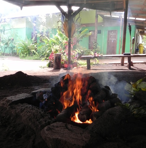 Fire to heat the volcanics stones for th earth oven